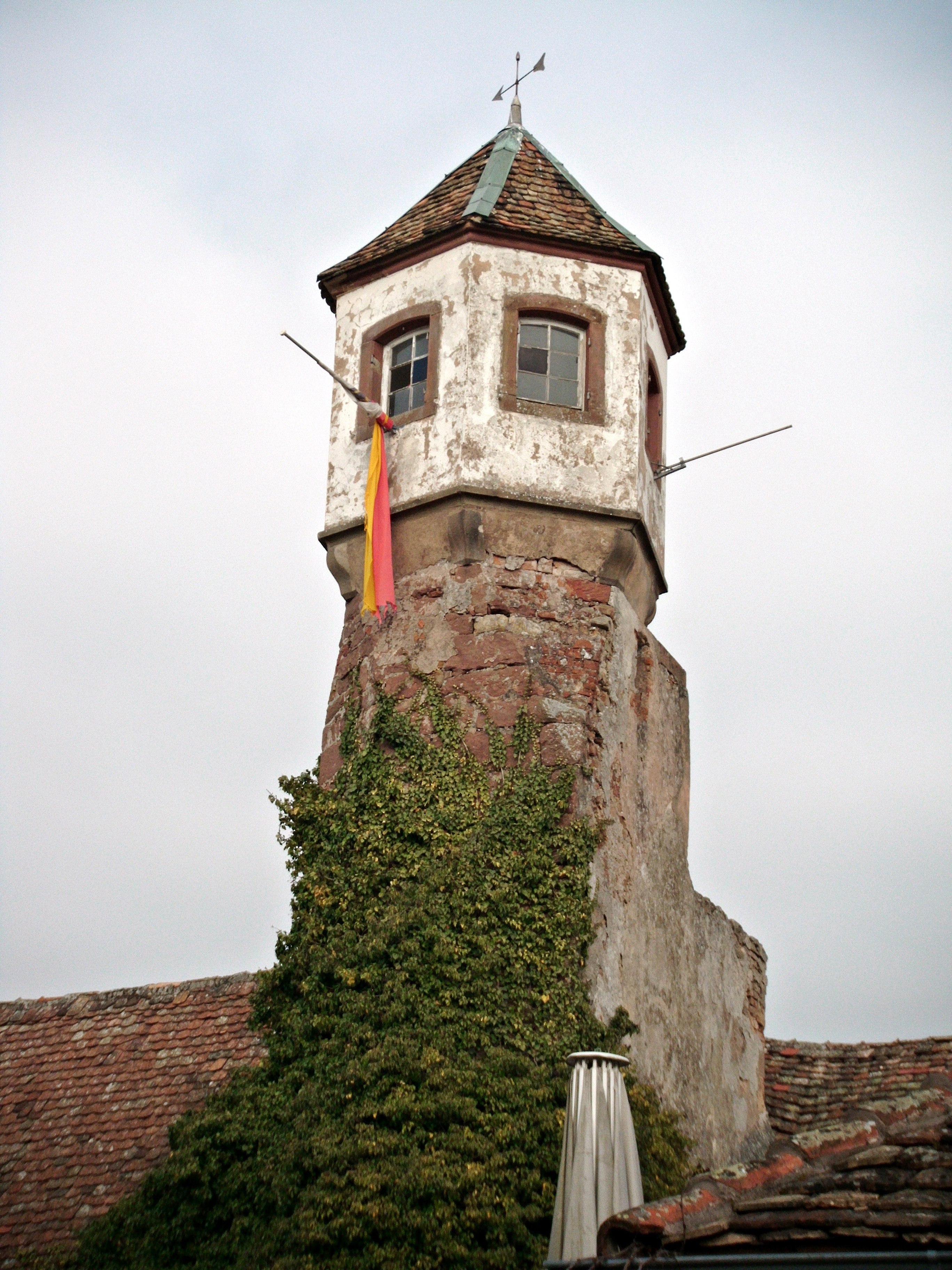 Kloster Heilsbruck, Edenkoben